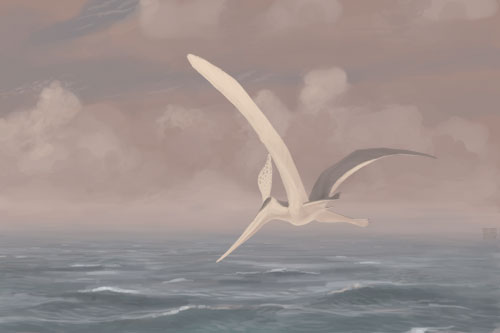 The pterodactyloid pterosaur Geosternbergia sternbergi by John Conway [1]